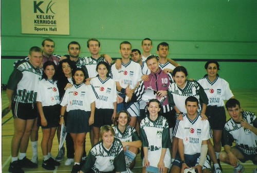 Marmara University korfball team in a tournament organized by Cambridge University